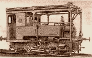 Russian tank locomotive with steam condensator, Kolomenski type 44